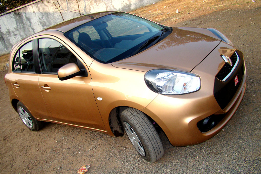 This image shows the full profile of a copperish orange Renault Pulse